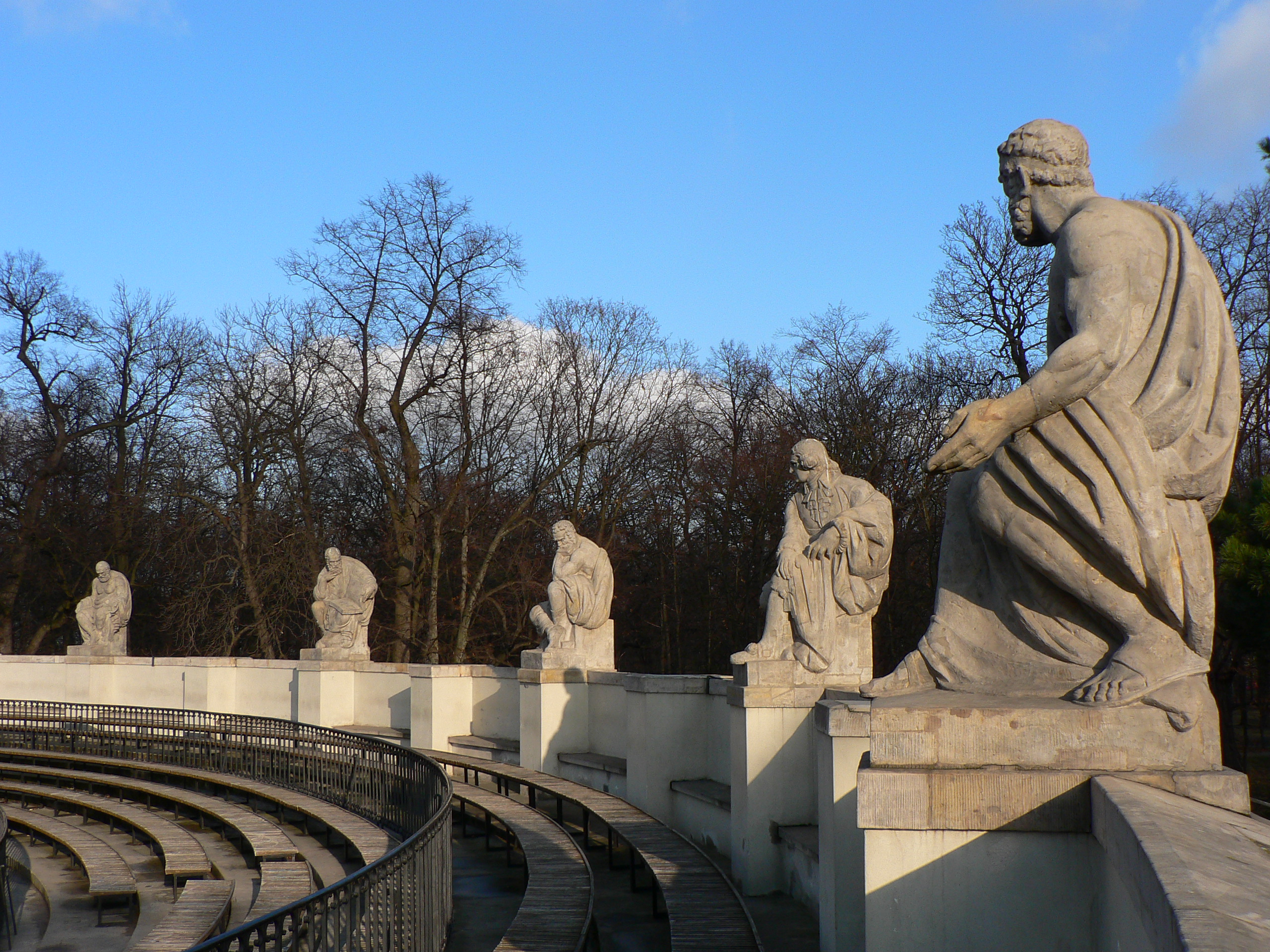 Łazienki Park, Warsaw, Poland